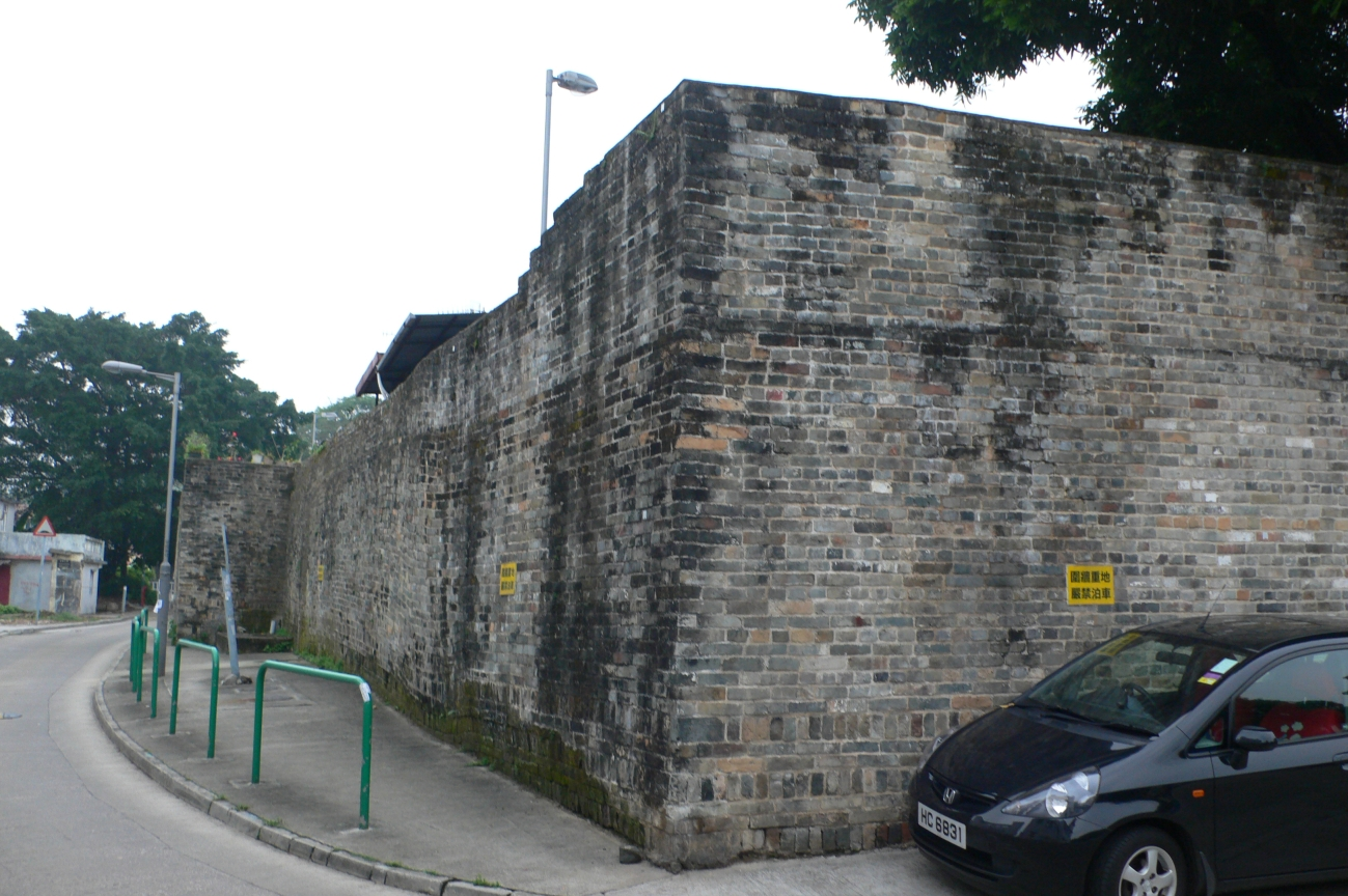 The wall of Lo Wai, a wall village in Lung Yeuk Tau, Fanling, Hong Kong